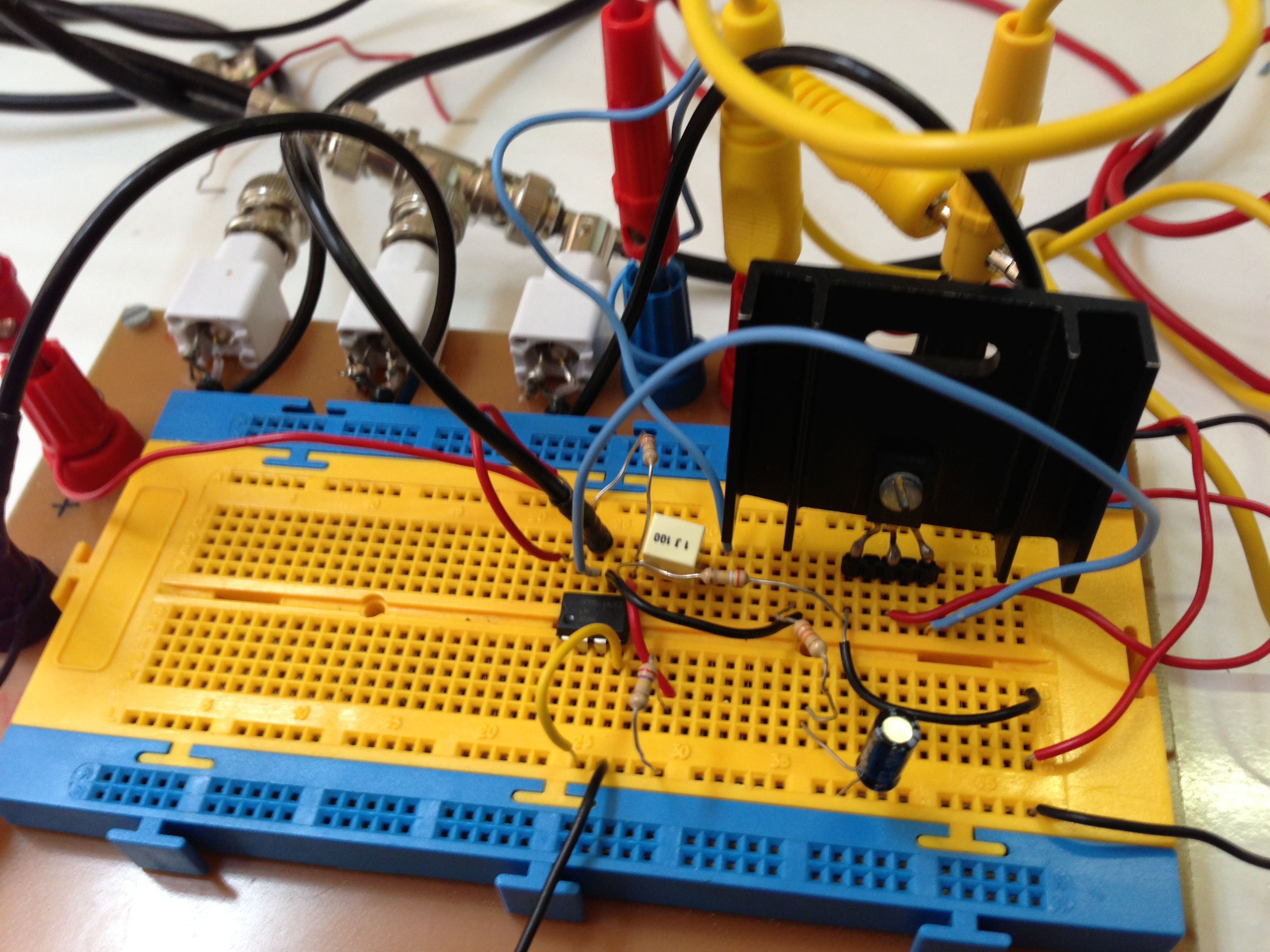 Placa Protoboard